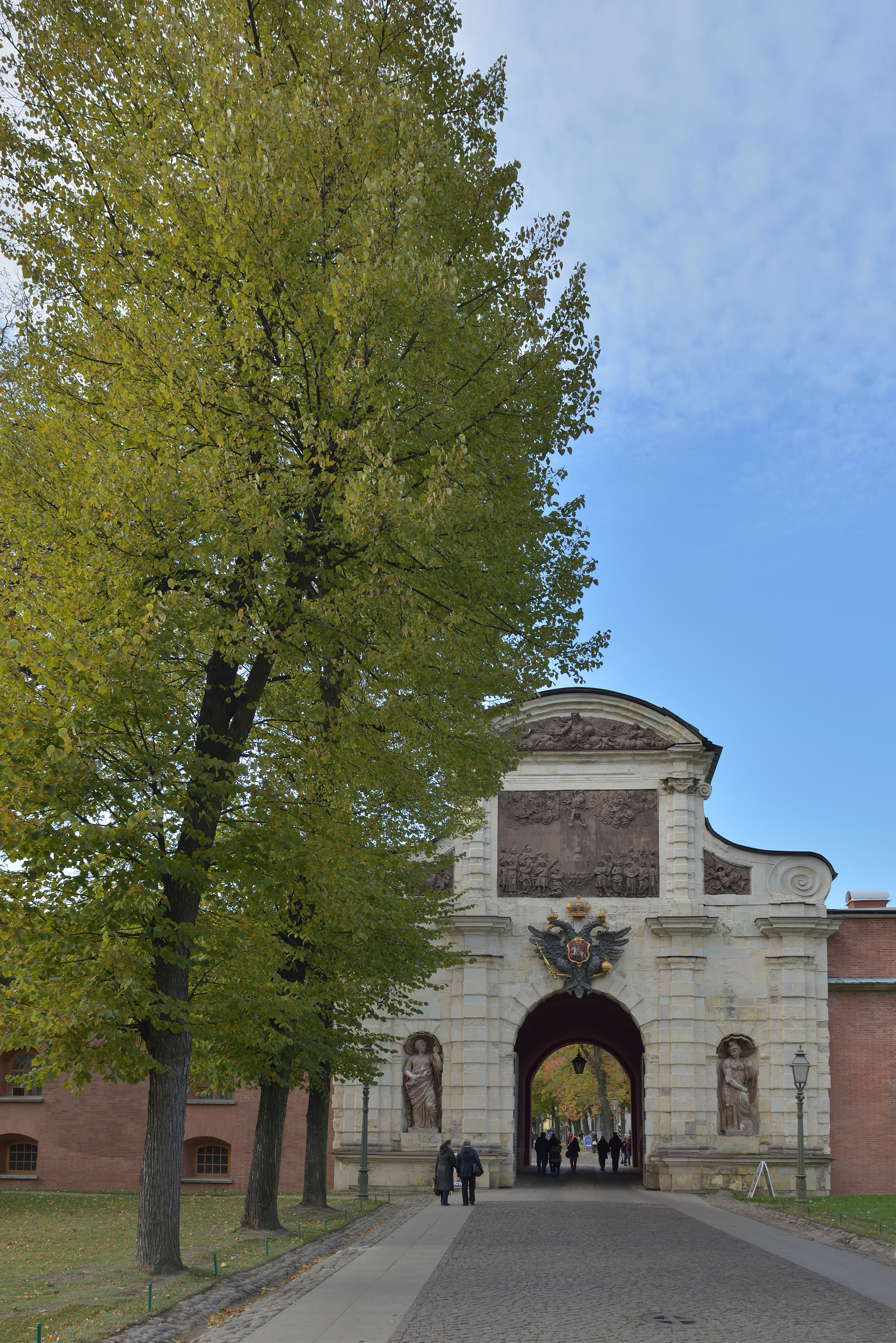 The Petrovsky gate in the Peter and Paul Fortress in Saint Petersburg 1905.